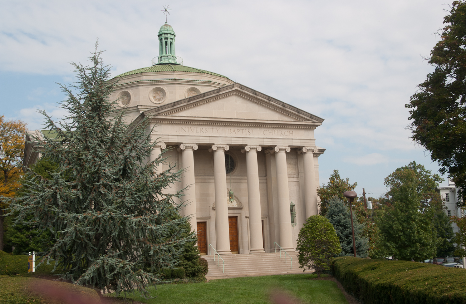 University Baptist Church in Baltimore, Maryland designed by John Russell Pope